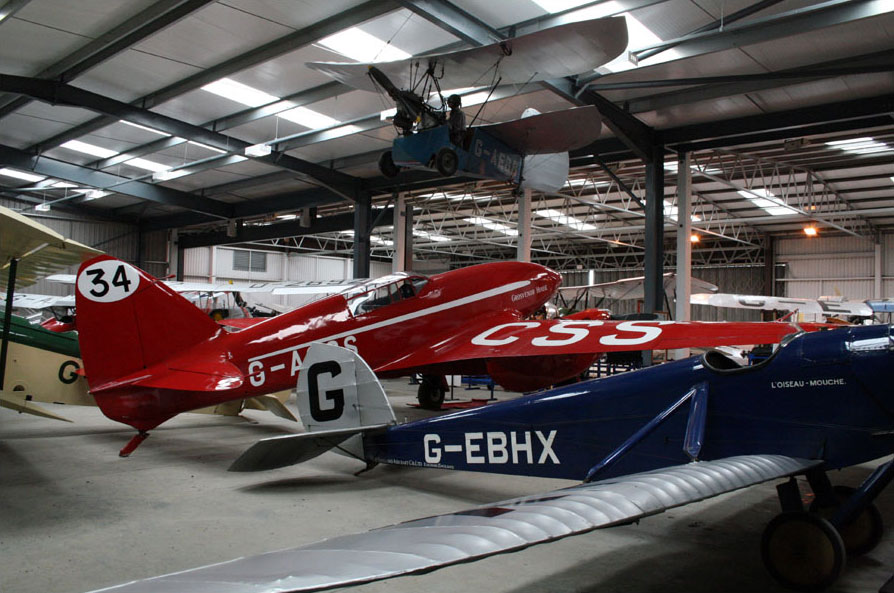 De Havilland DH 88 Comet Racer "Grosvenor House", winner of the 1934 MacRobertson Air Race, at Shuttleworth Collection.